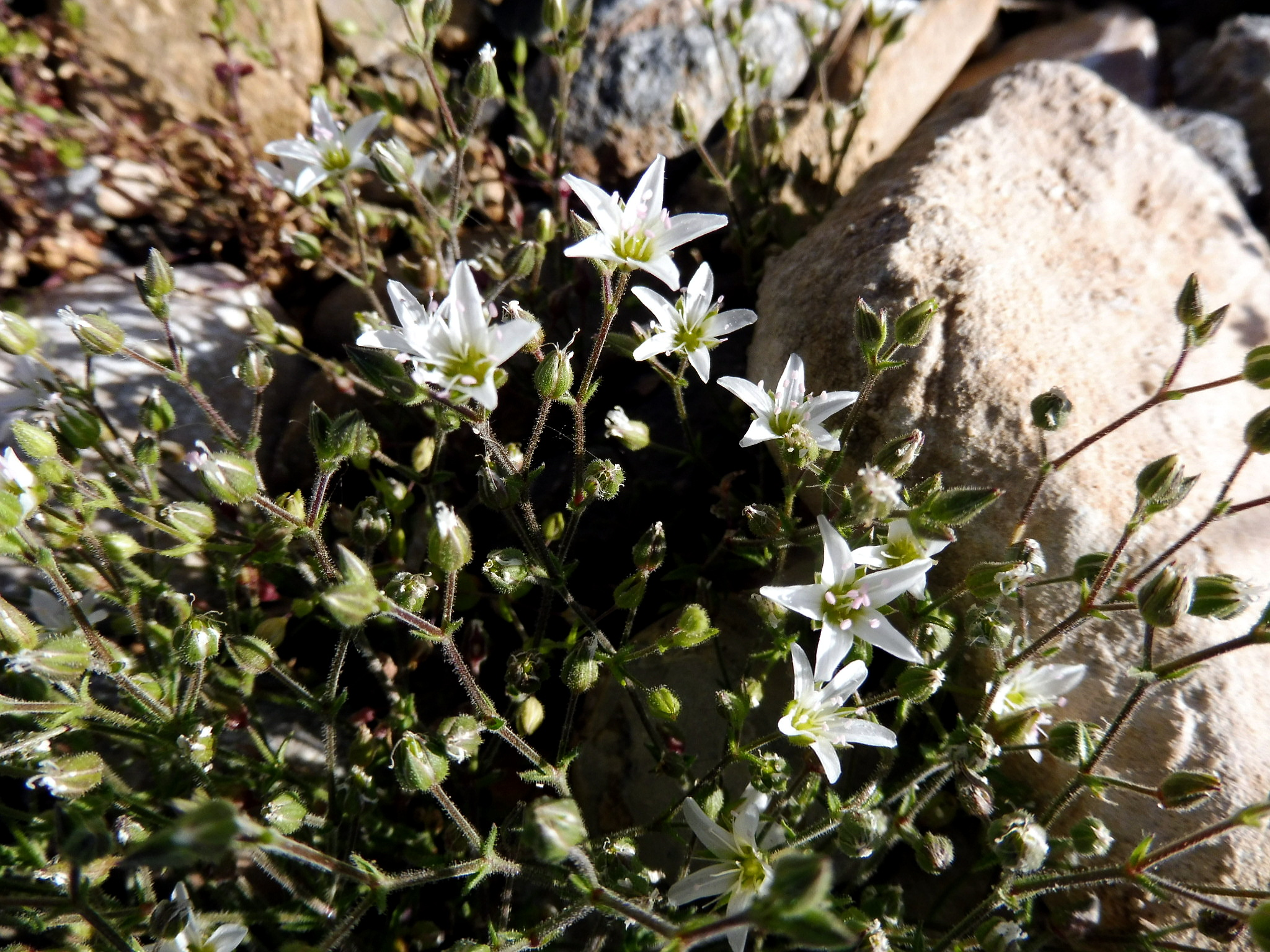 Arenaria conimbricensis. In serrat de Sòbol (Solsonès -Catalunya). To 1.250 m. altitude This is a a photo of a natural area in Catalonia, Spain, with id: ES510197